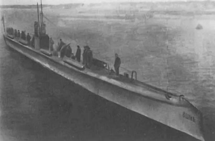 Russian submarine "Волк" ("Volk", Wolf). Baltic fleet. 1916.